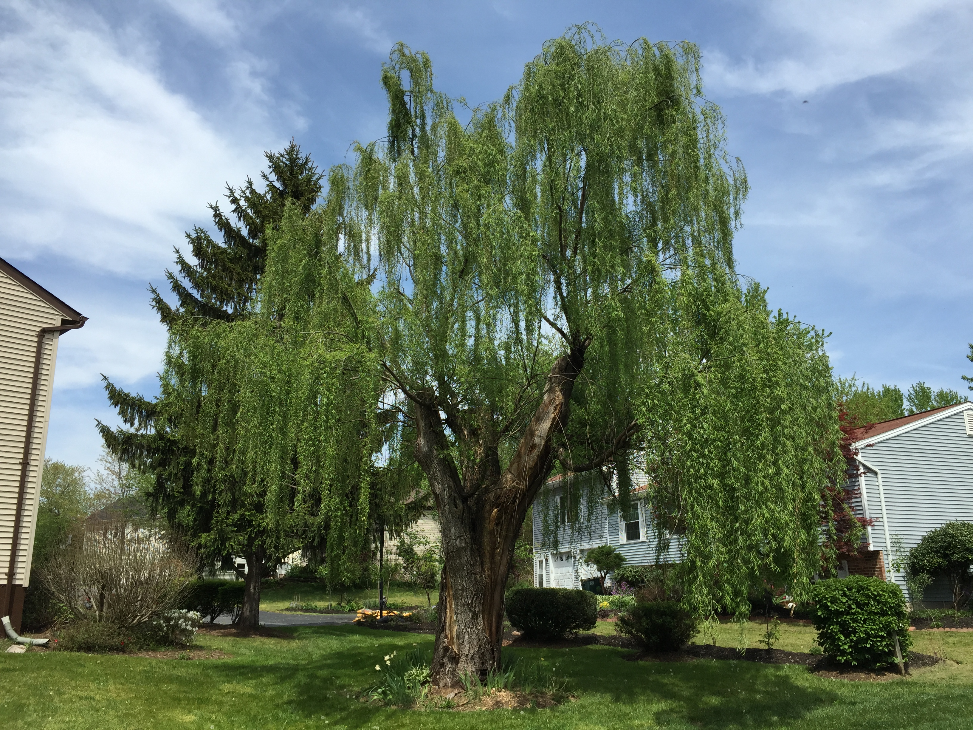 Weeping Willow along Gatepost Court in the Franklin Farm section of Oak Hill, Fairfax County, Virginia